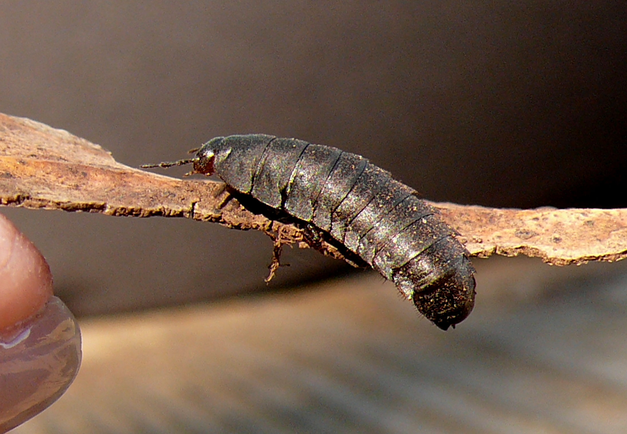 American Carrion Beetle Necrophila americana larva.